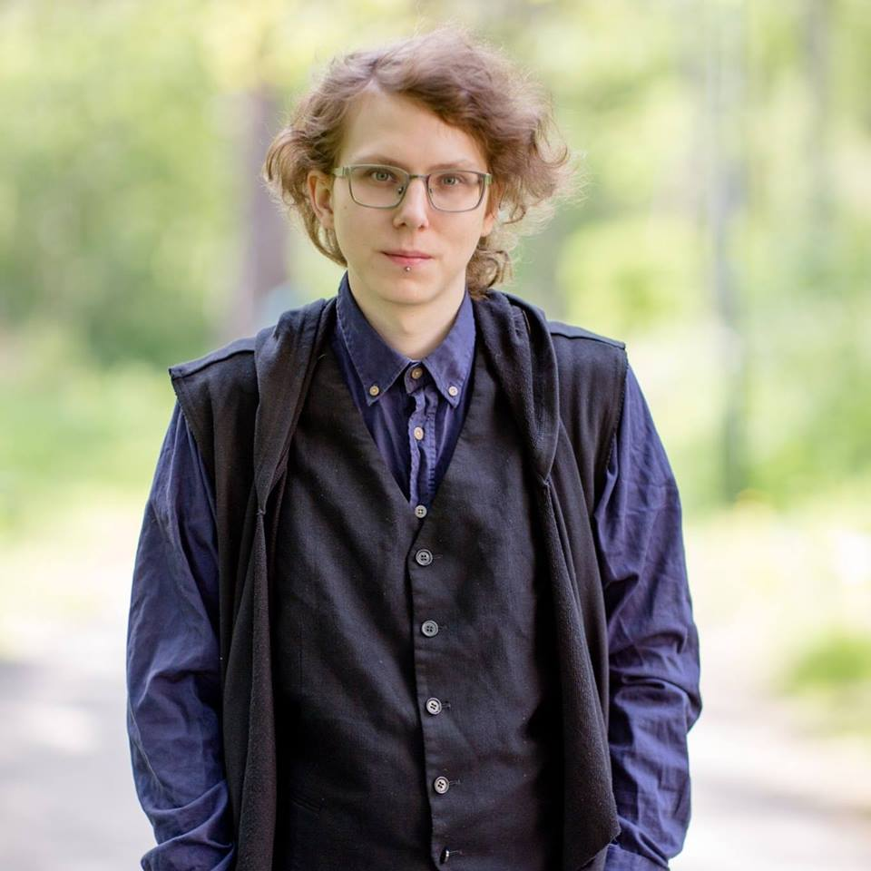 Anton Nordenfur, May 2016. Photo by Per Pettersson.